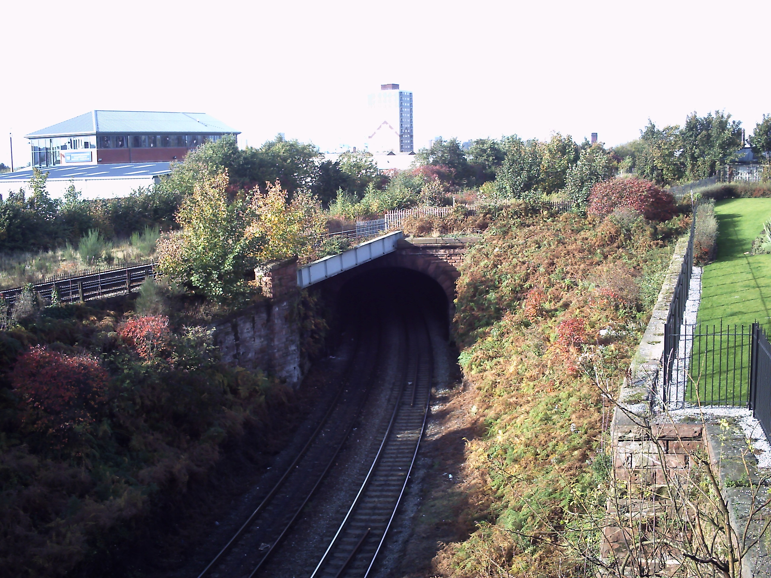 Canada Dock Branch passes under the Northern Line of Merseyrail just before Bootle Oriel Road. The platforms for Bootle Balliol Road finished just before the tunnel.